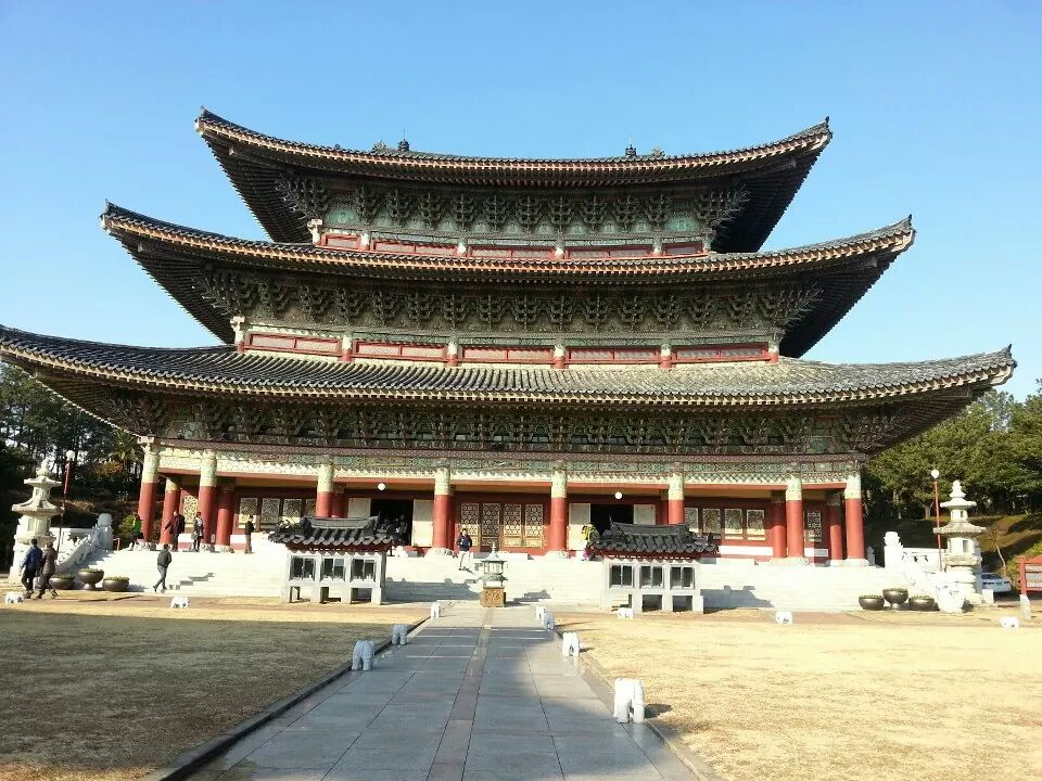 Yakchun temple in South Korea